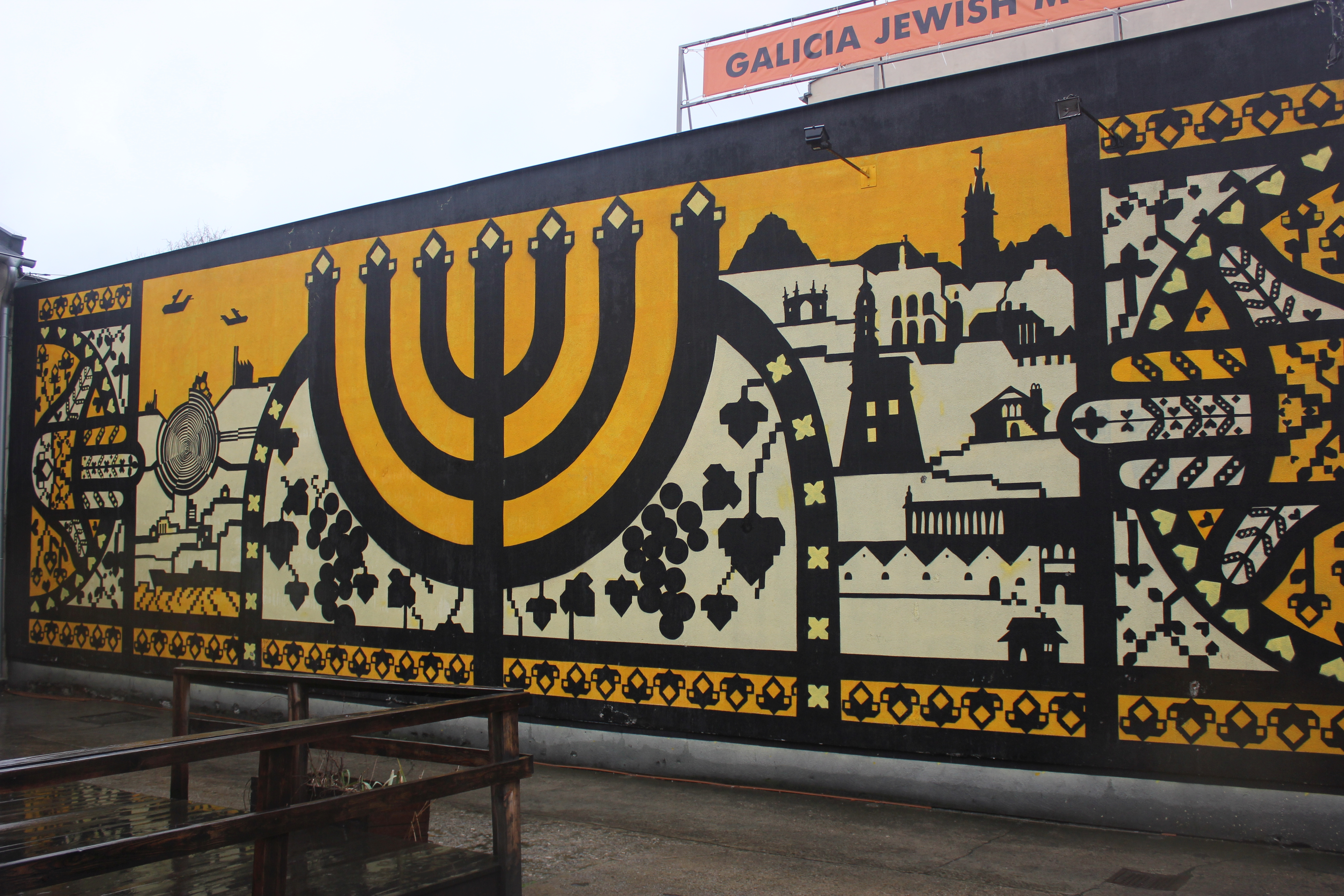 Kraków - mural by Marcin Wierzchowski on the Galicia Jewish Museum building